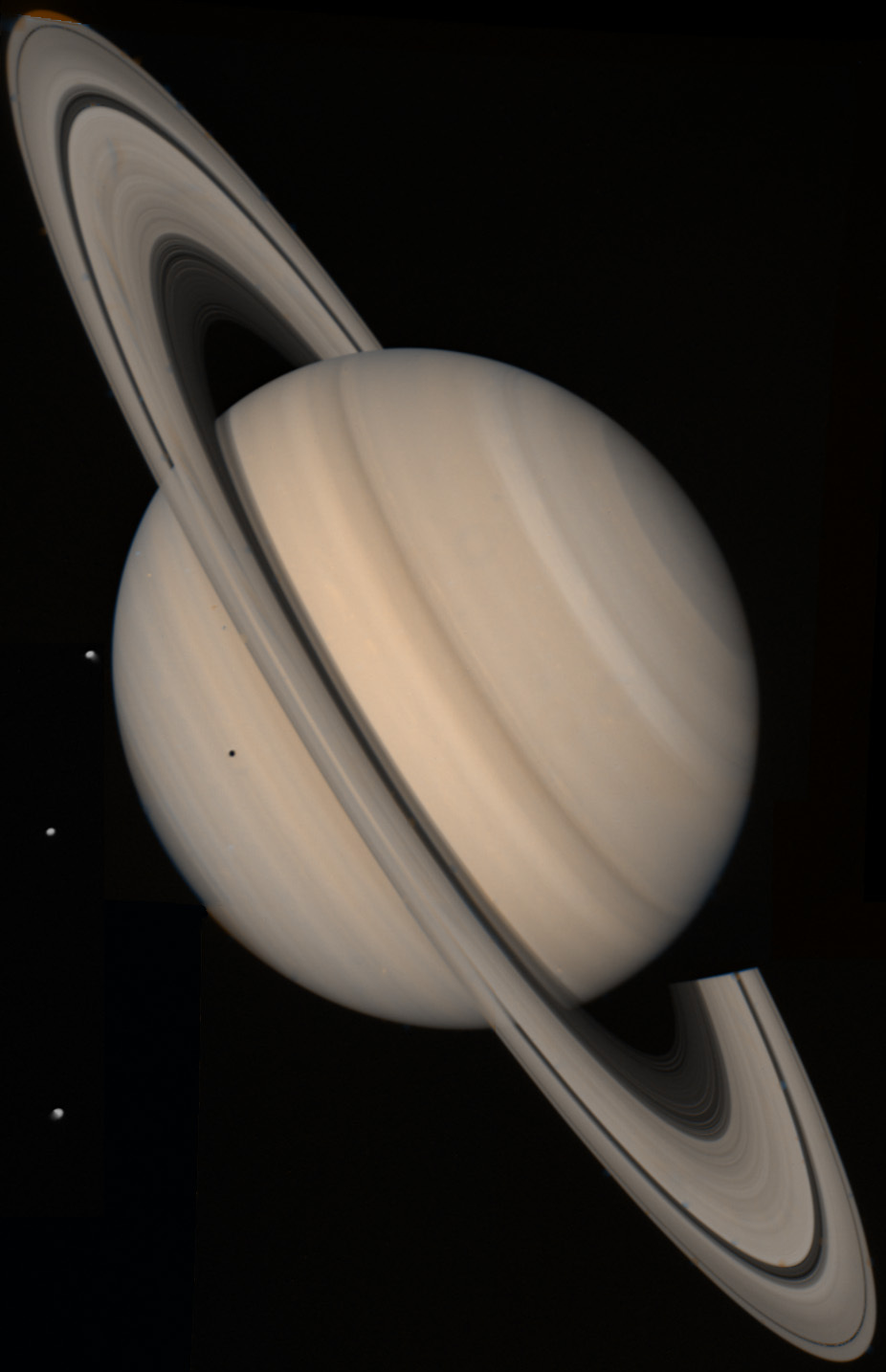 This true color picture was assembled from Voyager 2 Saturn images obtained Aug. 4 [1981] from a distance of 21 million kilometers (13 million miles) on the spacecraft's approach trajectory. Three of Saturn's icy moons are evident at left. They are, in order of distance from the planet: Tethys, 1,050 km. (652 mi.) in diameter; Dione, 1,120 km. (696 mi.); and Rhea, 1,530 km. (951 mi.). The shadow of Tethys appears on Saturn's southern hemisphere. A fourth satellite, Mimas, is less evident, appearing as a bright spot a quarter-inch in in from the planet's limb about half an inch above Tethys; the shadow of Mimas appears on the planet about three-quarters of an inch directly above that of Tethys. The pastel and yellow hues on the planet reveal many contrasting bright and darker bands in both hemispheres of Saturn's weather system. The Voyager project is managed for NASA by the Jet Propulsion Laboratory, Pasadena, California, United States.